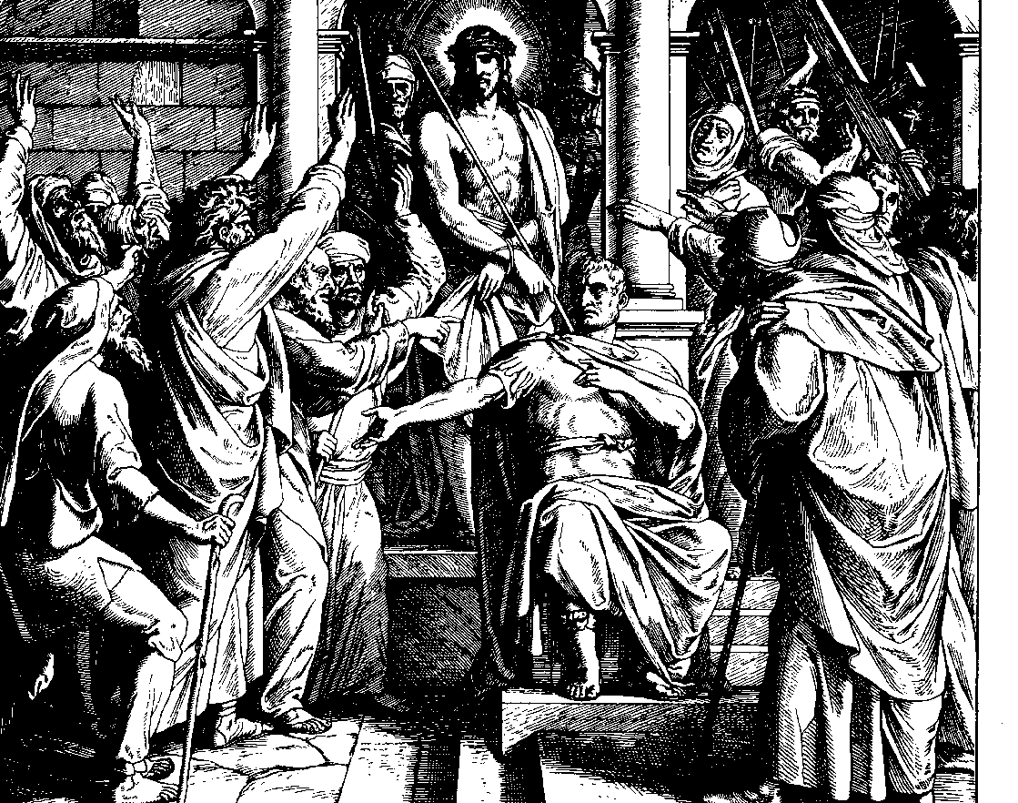 Woodcut for "Die Bibel in Bildern", 1860.